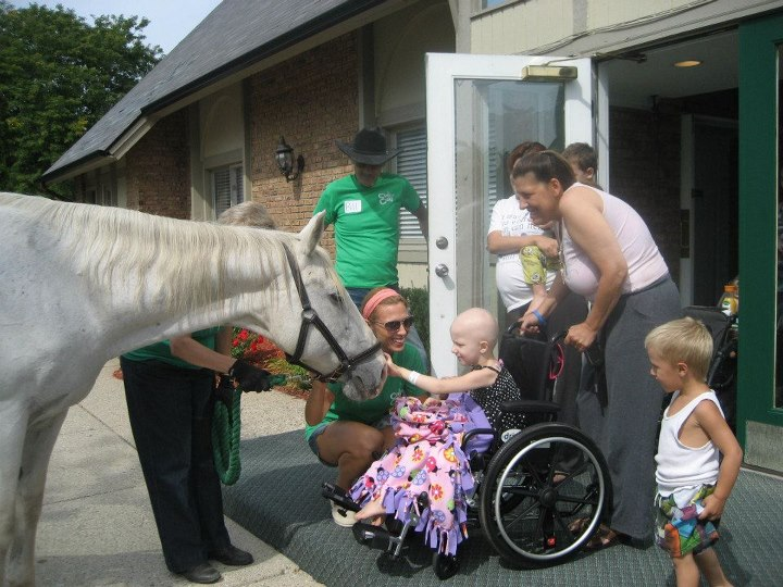 Camp Casey's Horsey House Call. A horse at the doorstep of a sick child's home.